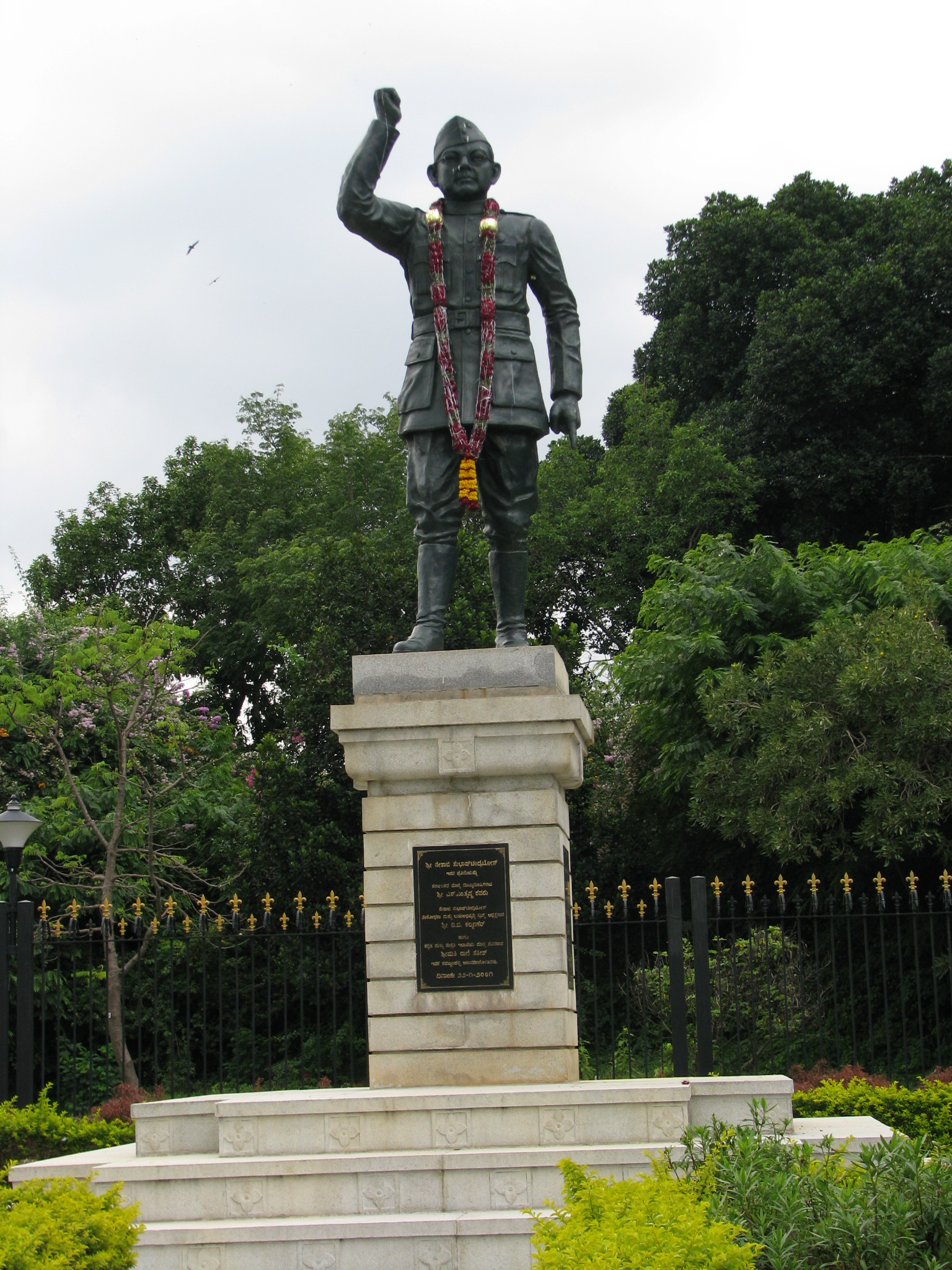 Outer Ring Road Apartments Netaji Subhas Chandra Bose near Vidhan Soudh